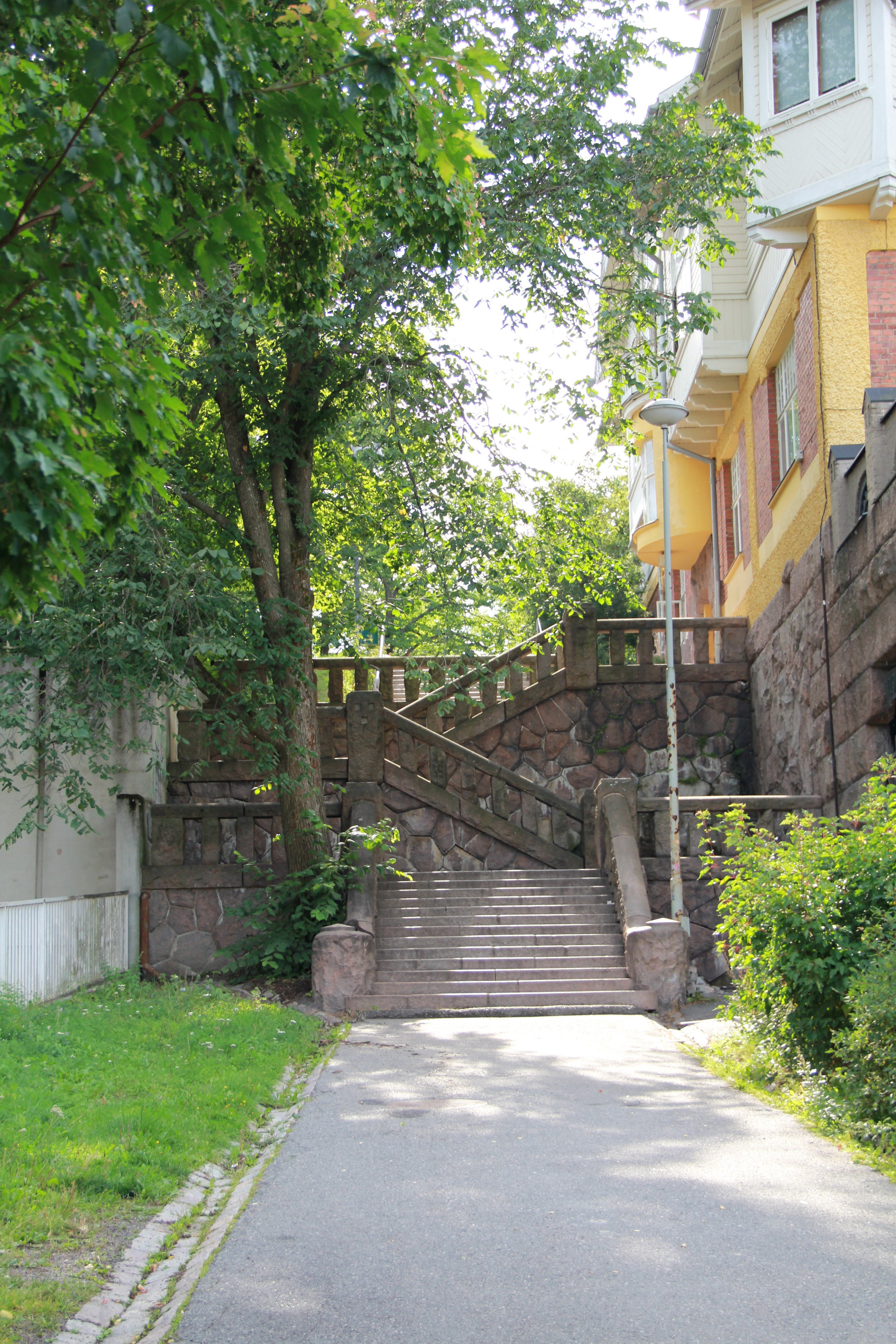 Muistainveljesten portaat, Turku, Finland. A staircase in jugend style built in 1907. Design by architect J. Eskil Hindersson.